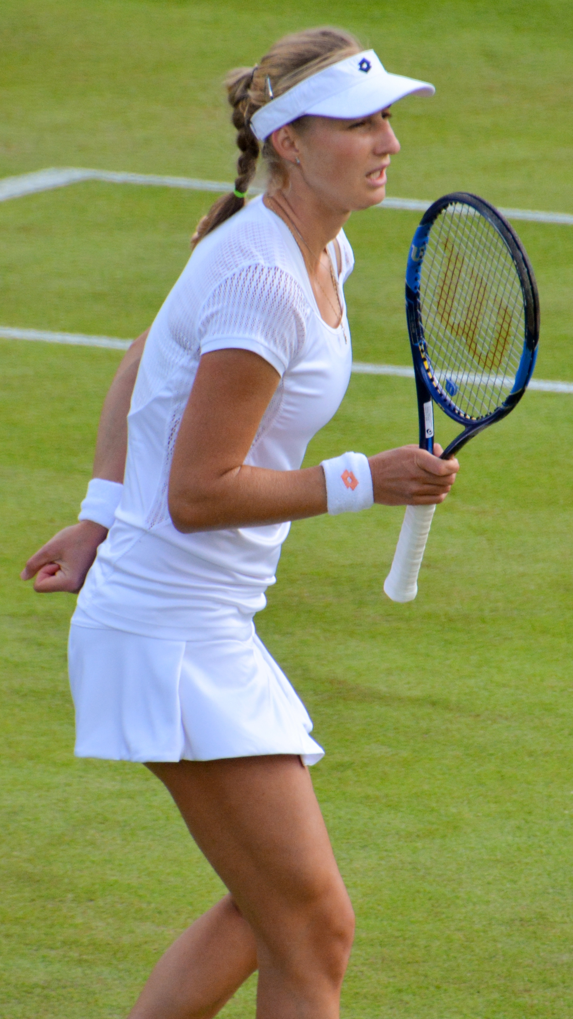 Ekaterina Makarova signals to her doubles partner Elena Vesnina. Middle Sunday of Wimbledon 2016.